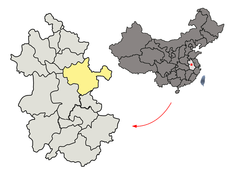 Location of Chuzhou Prefecture (yellow) within Anhui Province of China Map drawn in december 2007 using various sources, mainly : Anhui Province administrative regions GIS data: 1:1M, County level, 1990 Anhui Counties map from